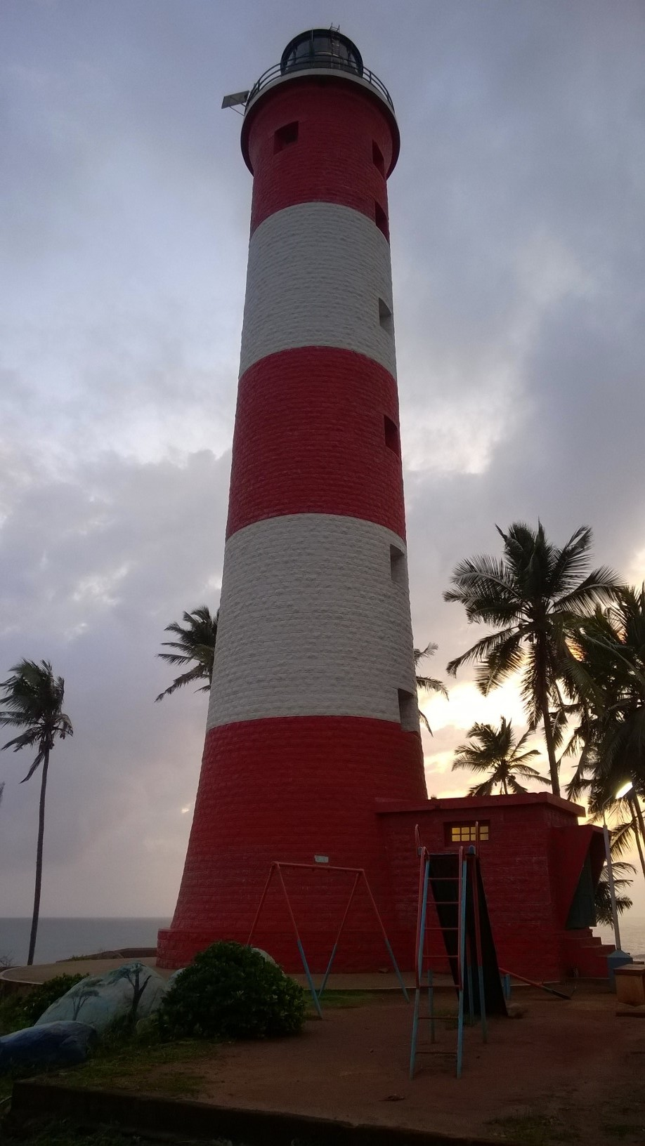 Close view of the LIGHT HOUSE in Vizhinjam, Trivandrum